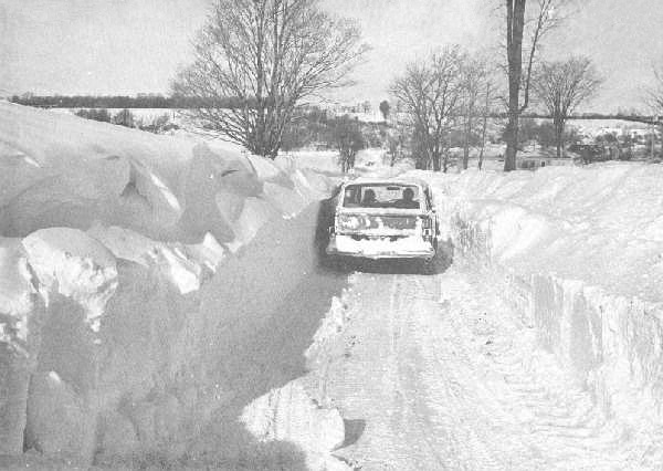 Snow drifts turned many roads into one-lane traffic. This photo is from Feb. 7, 1977.